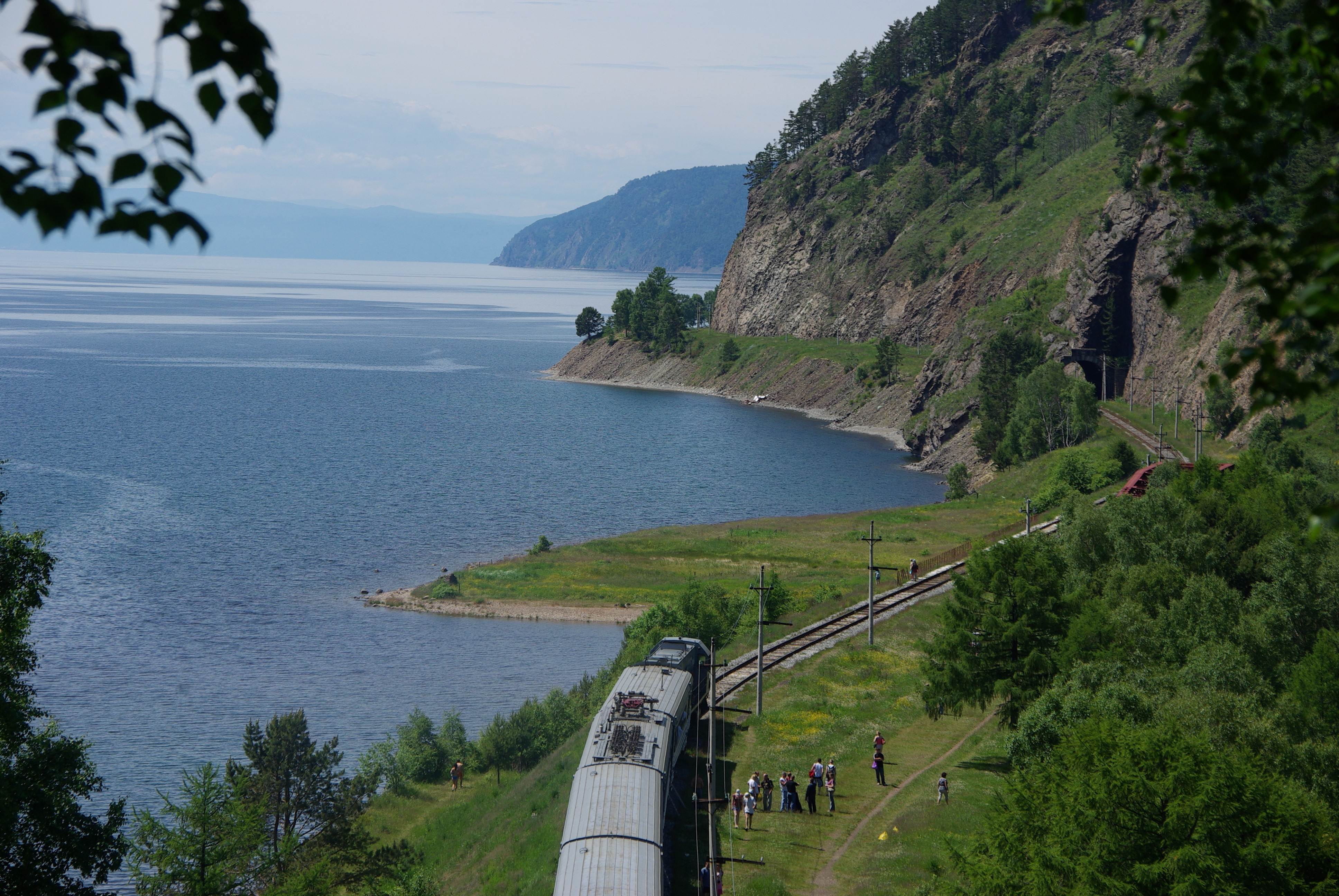 Longest stop of tourist train at middle of route, at August swim in Baikal is possible.